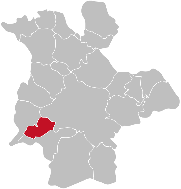 Location of the district Gosenbach within Siegen, Germany. Red/Grey colors match the color scheme of Germany maps and information boxes in German Wikipedia. District is highlighted in red.